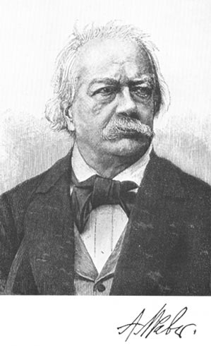 Albrecht Friedrich Weber (1825 — 1901), orientalist